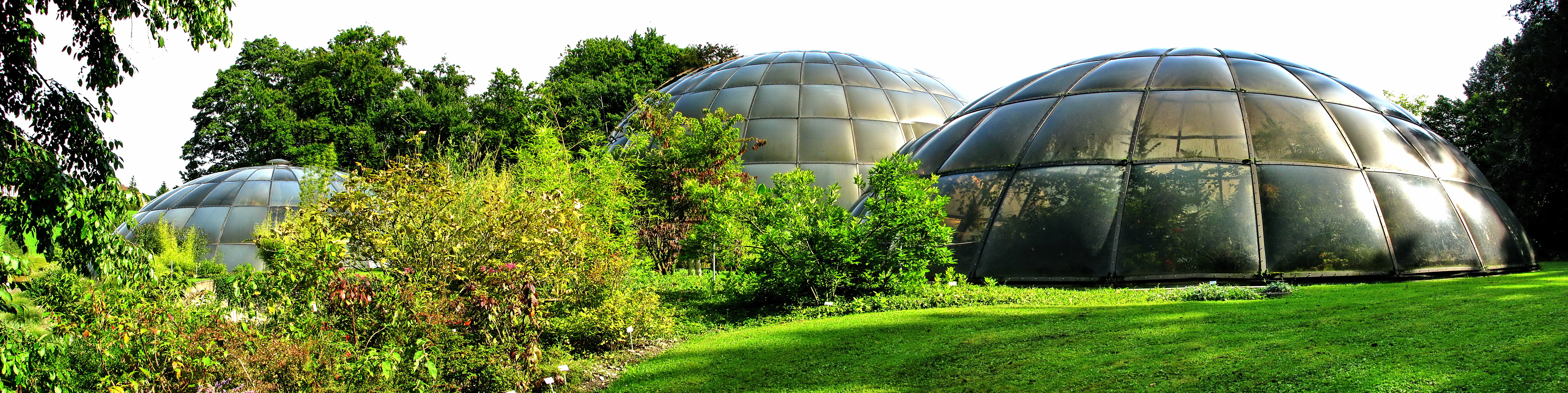 Zürich, Weinegg quarter (Riesbach, district 8) : Botanical Garden, Greenhouses, seen from the West.